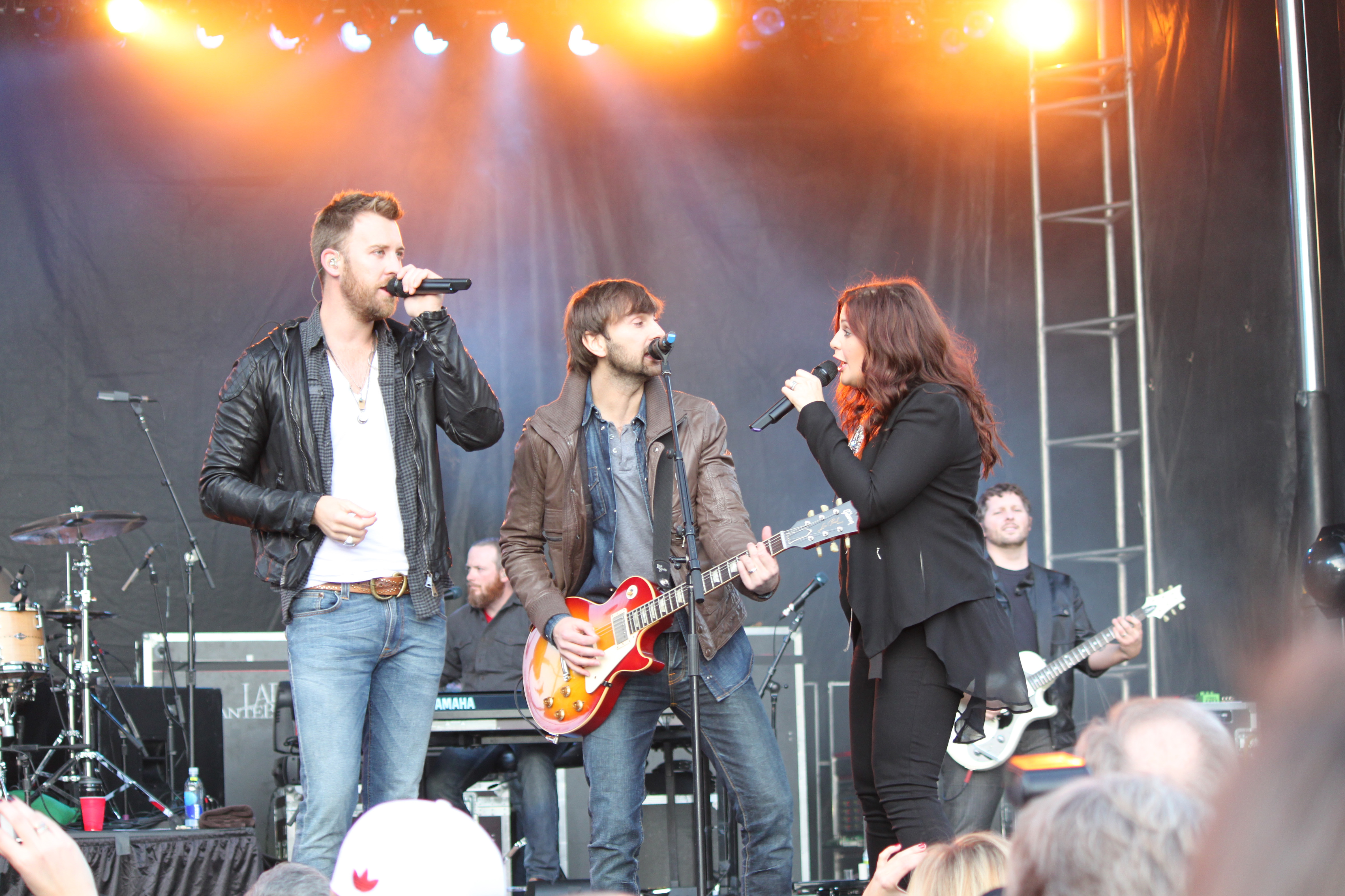 Lady Antebellum play in Charlotte